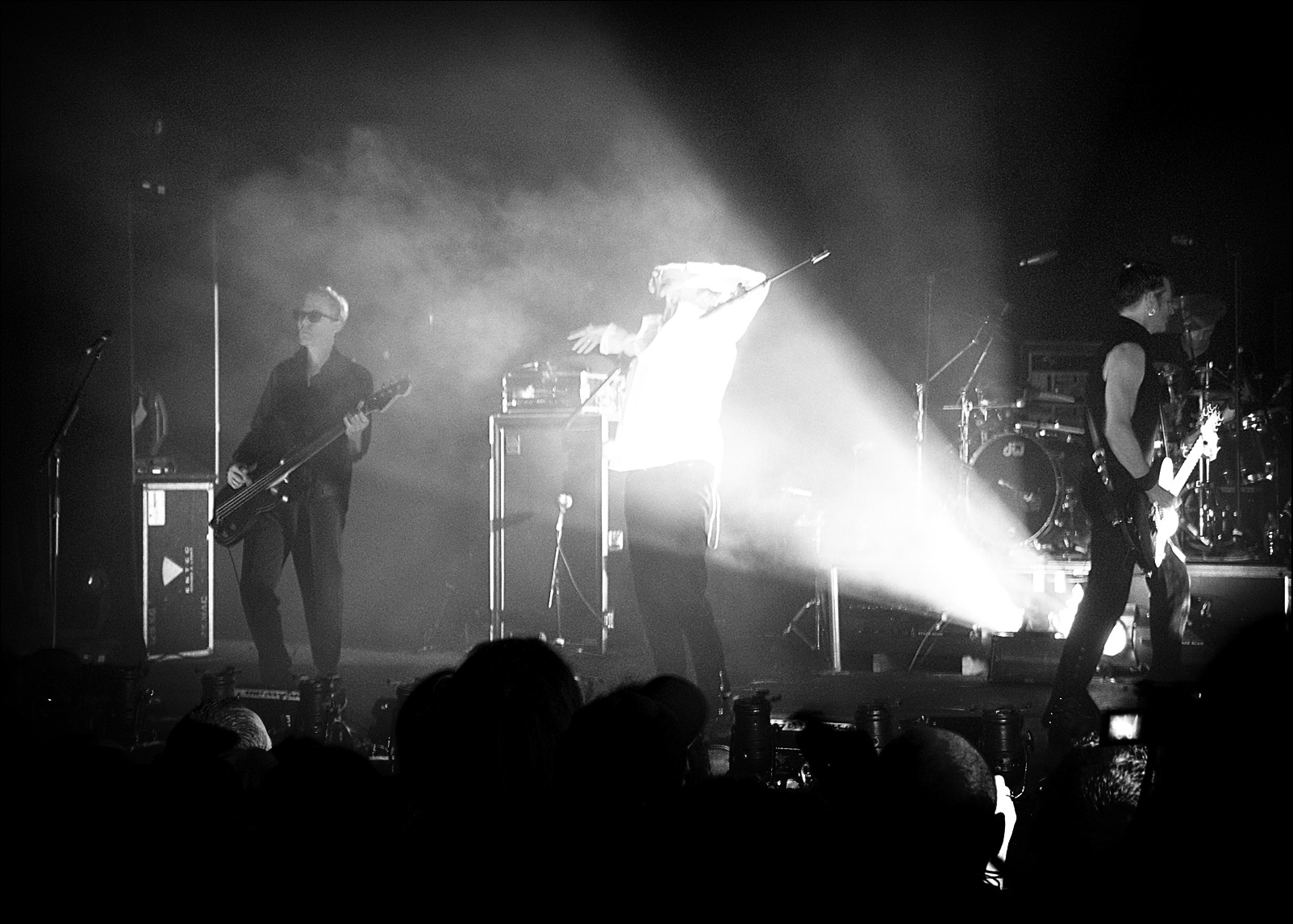 Photo of Bauhaus in concert at the Brixton Academy in London, England, February 3, 2006, playing "Stigmata Martyr".